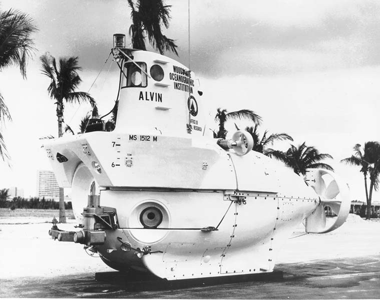 Port bow view of DSV Alvin